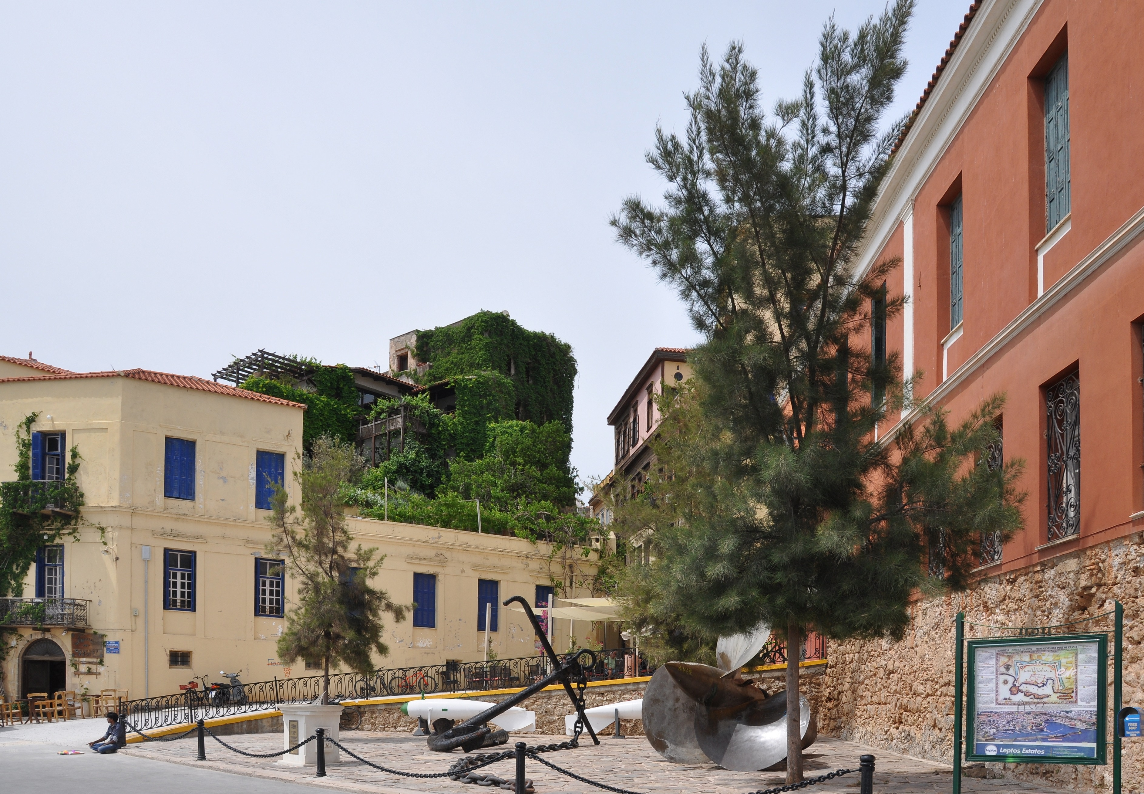 Entrance of the Naval Museum of Chania in Crete, Greece.